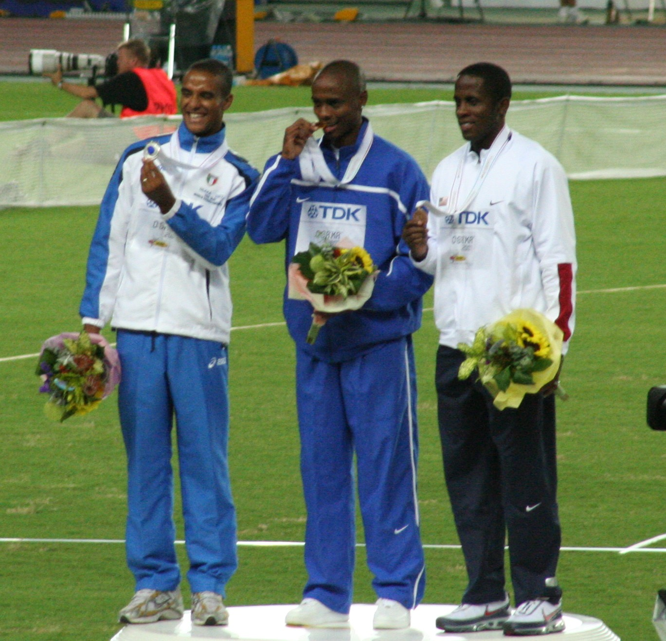 World Athletics Championships 2007 in Osaka - Victory ceremony for the men*s long jump competition: Andrew Howe, Irving Saladino, Dwight Phillips